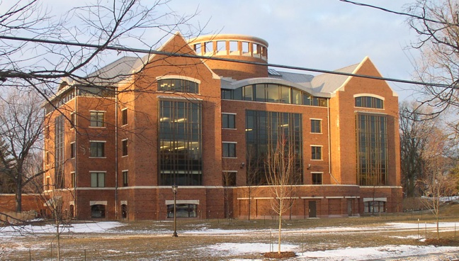 Ames Library, Bloomington, Illinois